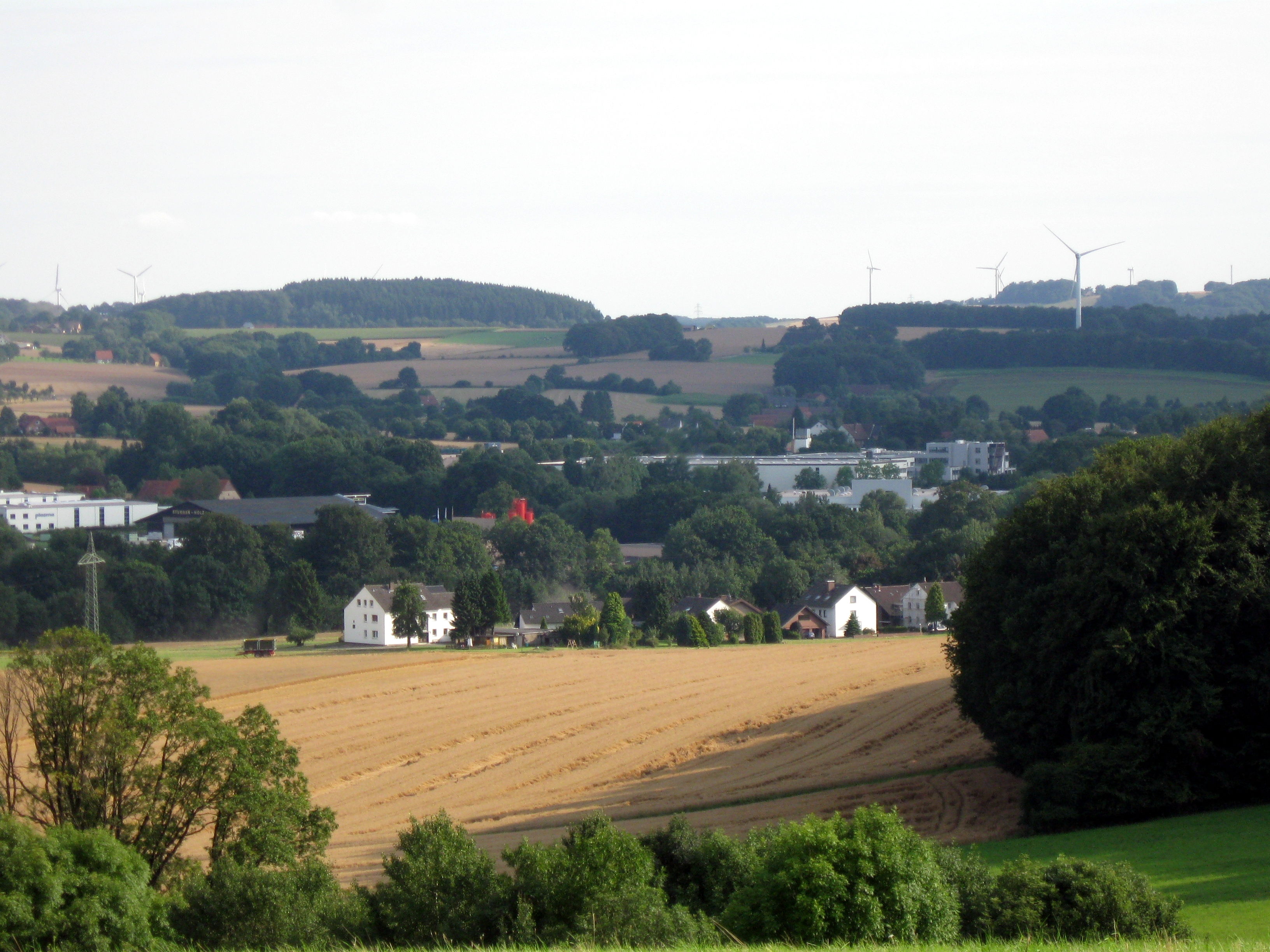 Location Klusberg of the west with views south to the industrial area in Hollwiesen Valdorf, the large collection of buildings in the right side of picture is the company Kannegiesser